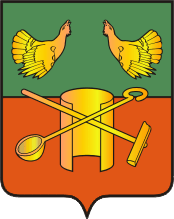 Kolchugino (Vladimir oblast), coat of arms